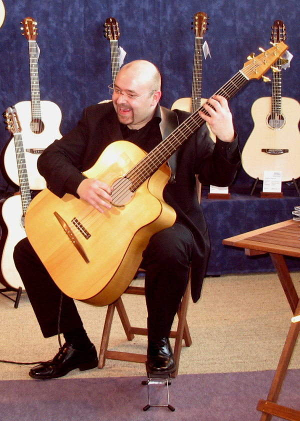 Acoustic Bass